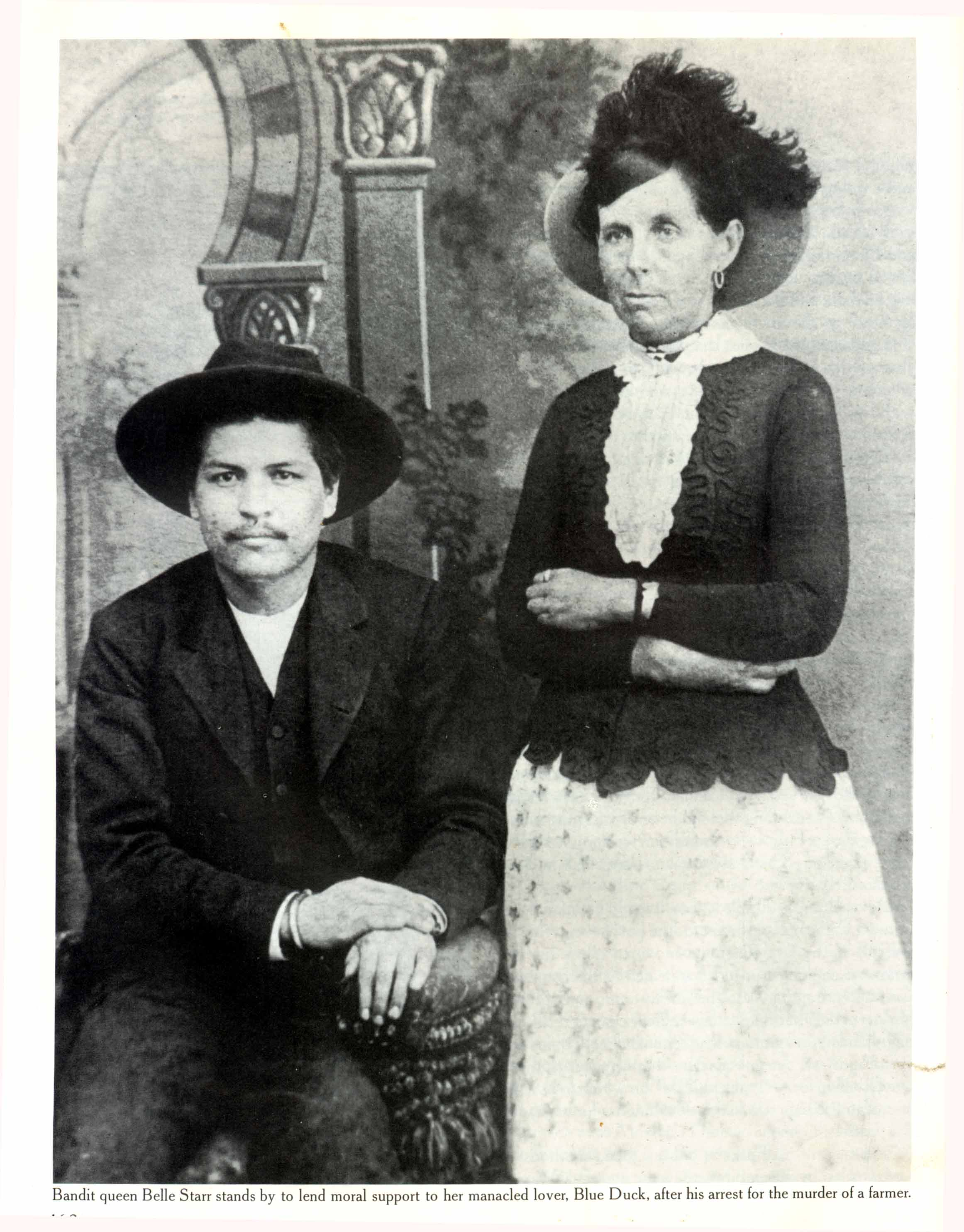 The controversial photo of Belle Star and Blue Duck, May 24, 1886. See discussion at